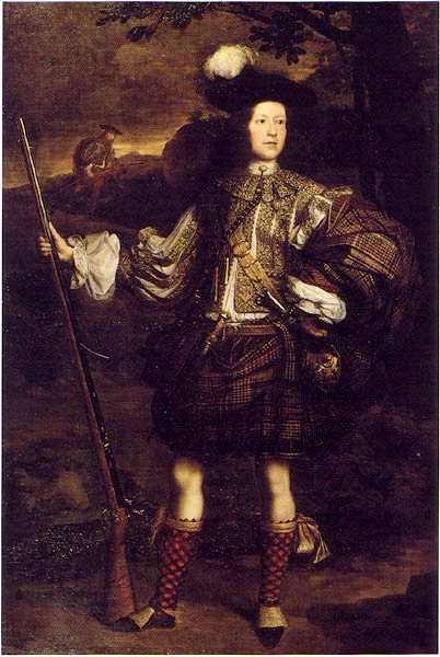 Lord Mungo Murray, the Highland Chieftain c 1680. The present Murray tartan is bright red.